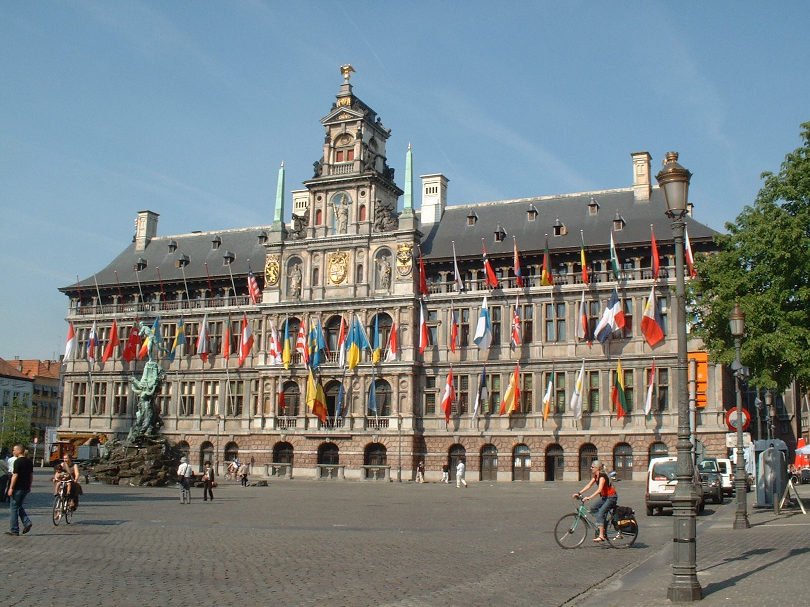 Antwerp town hall